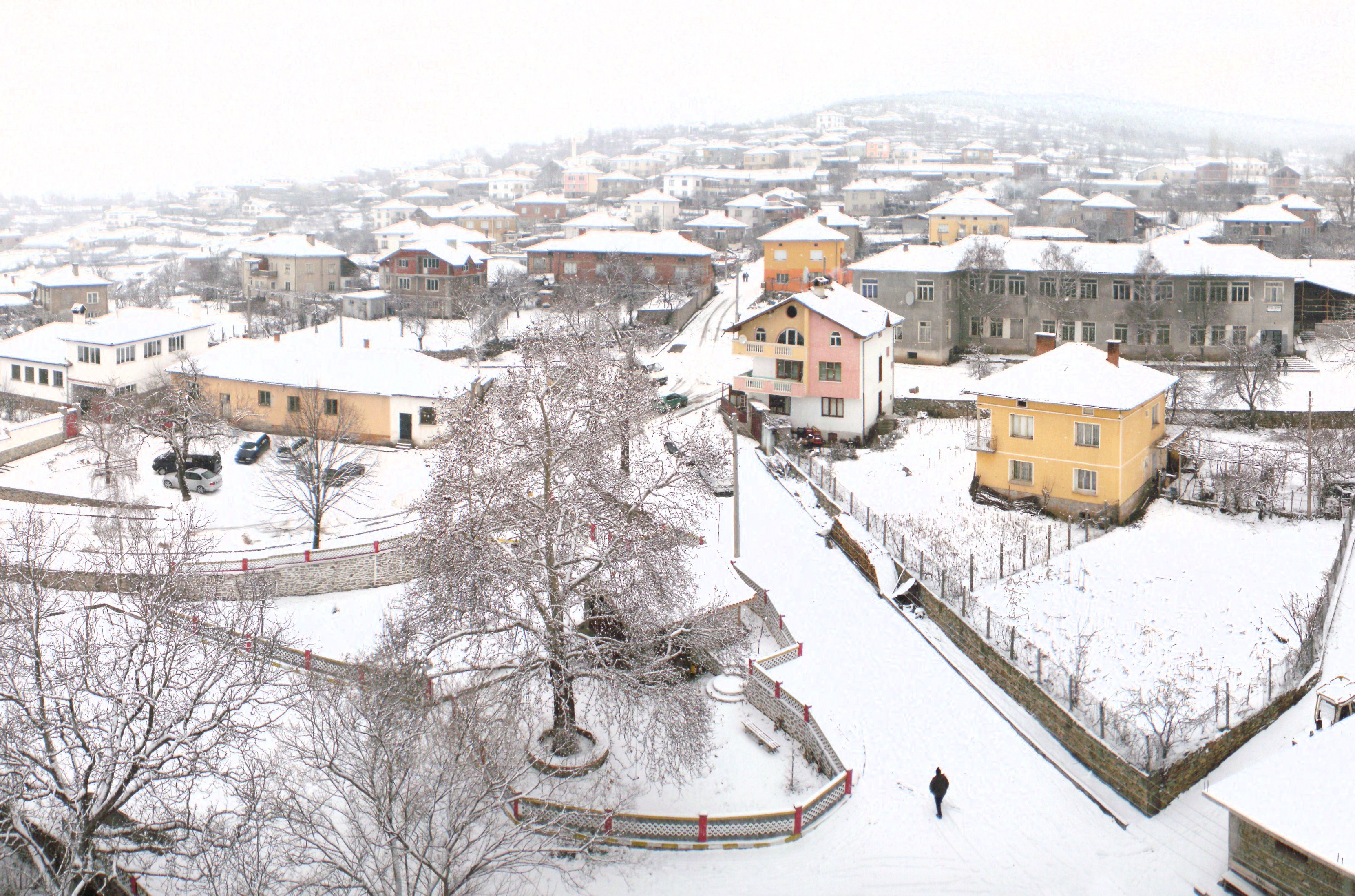 Winter view of the Tuhovishta village during January 2010